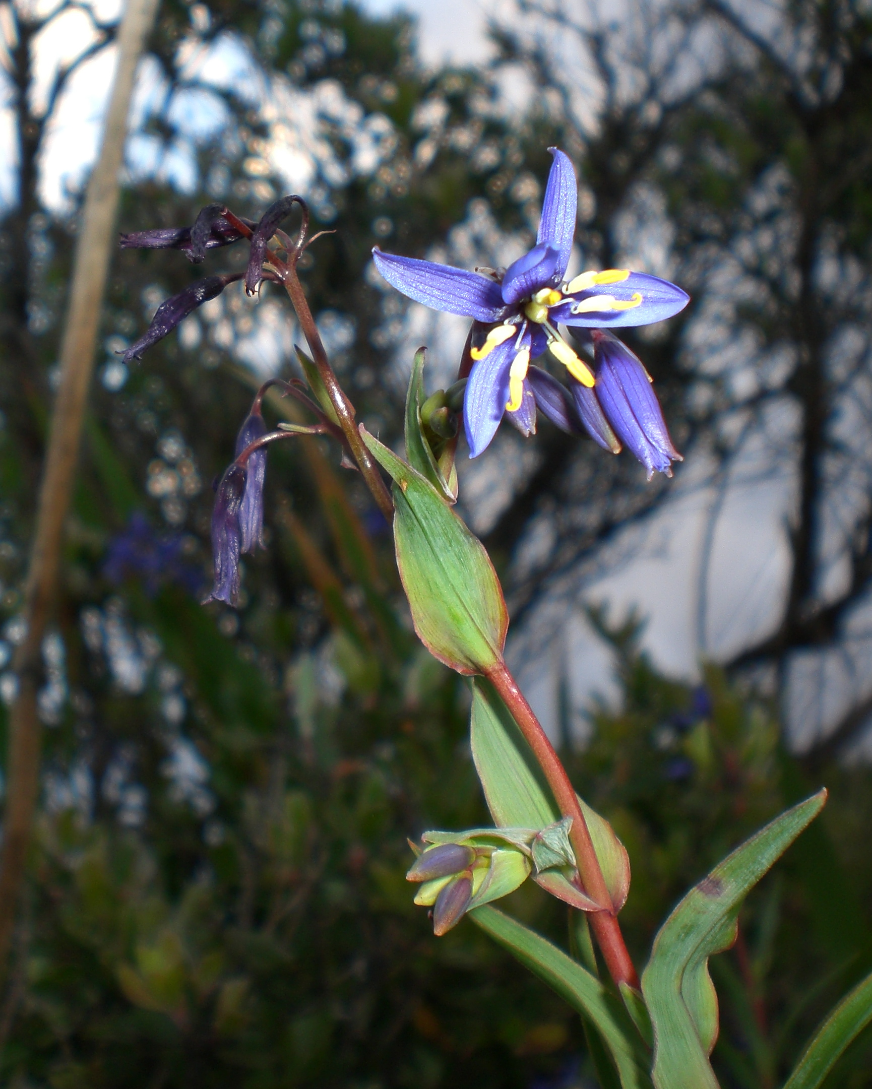 Stypandra glauca on Mount Melville, Albany, Western Australia.